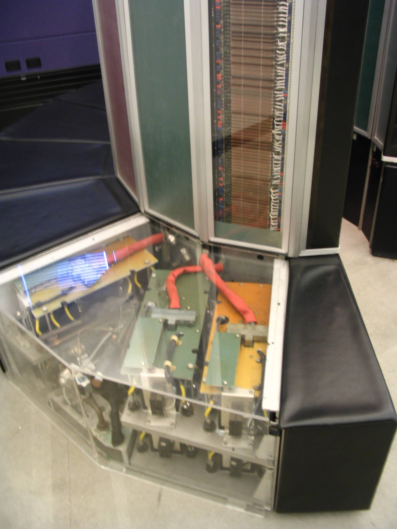 Cray-1A Supercomputer close-up at the Computer History Museum Photograph by Ed Toton, 2007-04-15